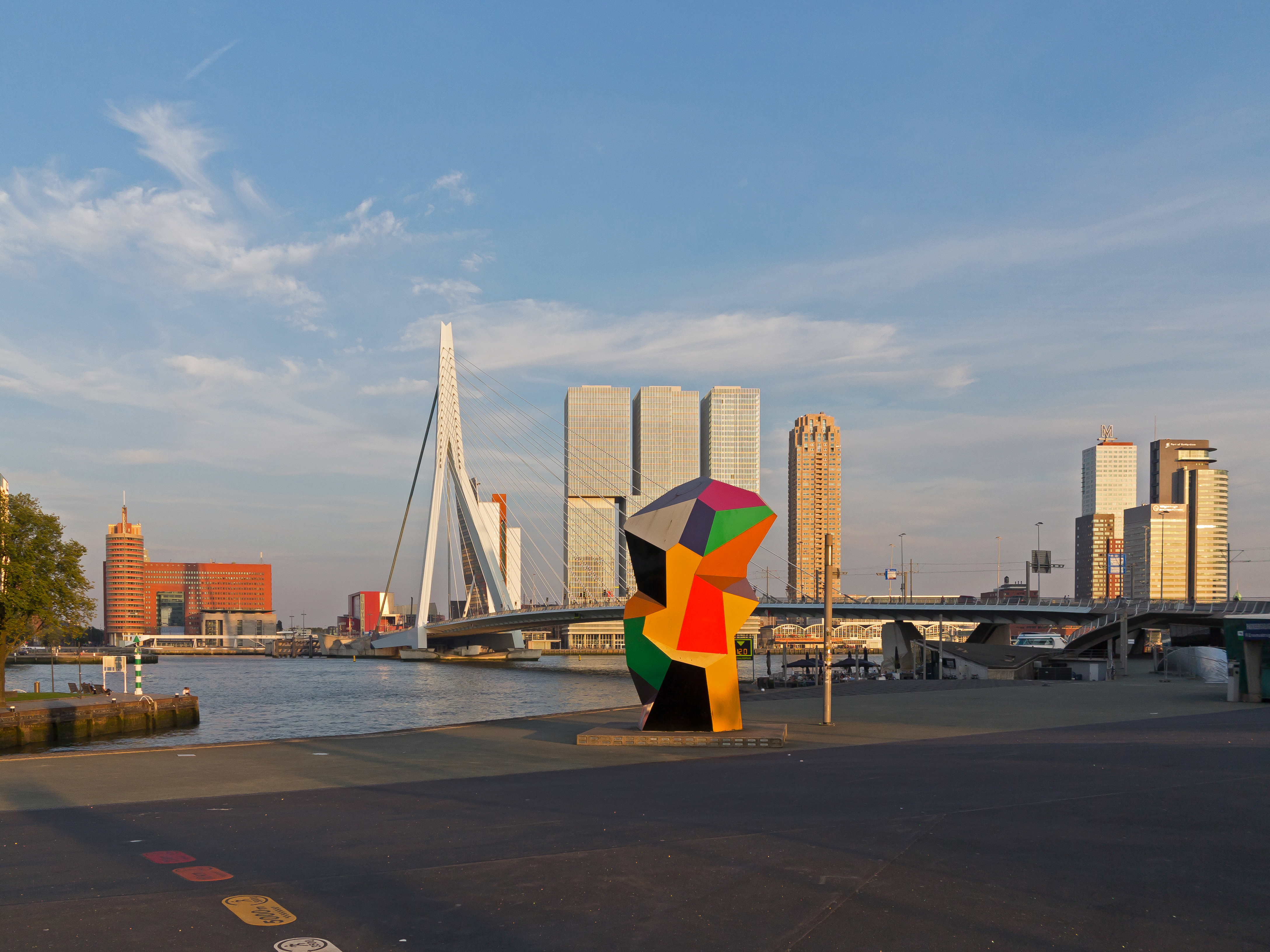 Rotterdam, marathon sculpture near the bridge (de Erasmusbrug)